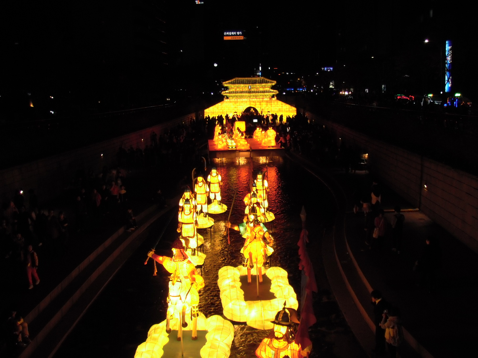 2011 Seoul lantern festival